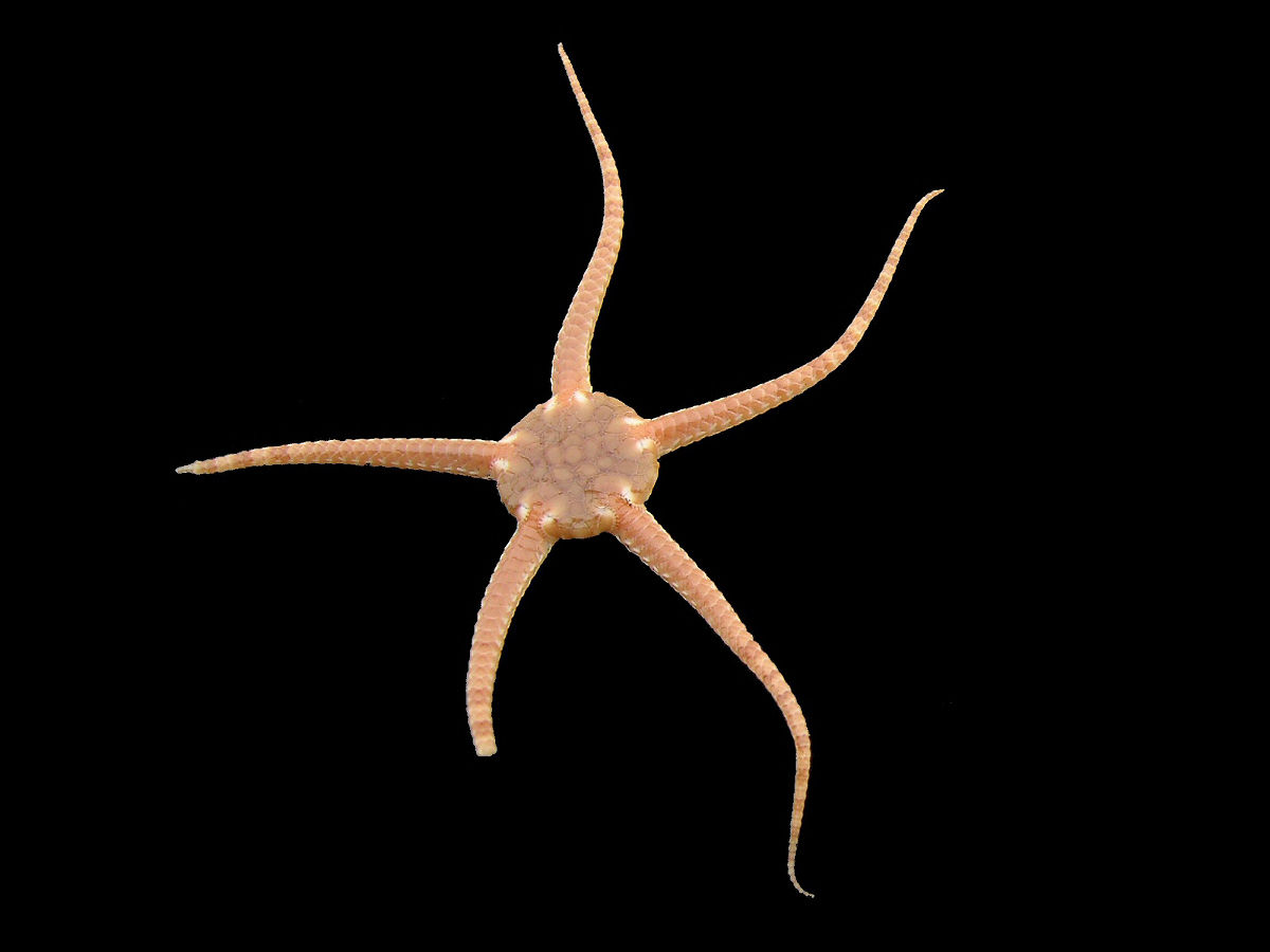 Taken on the R.V. Belgica, on sampling campaign St0504 on the BCS.